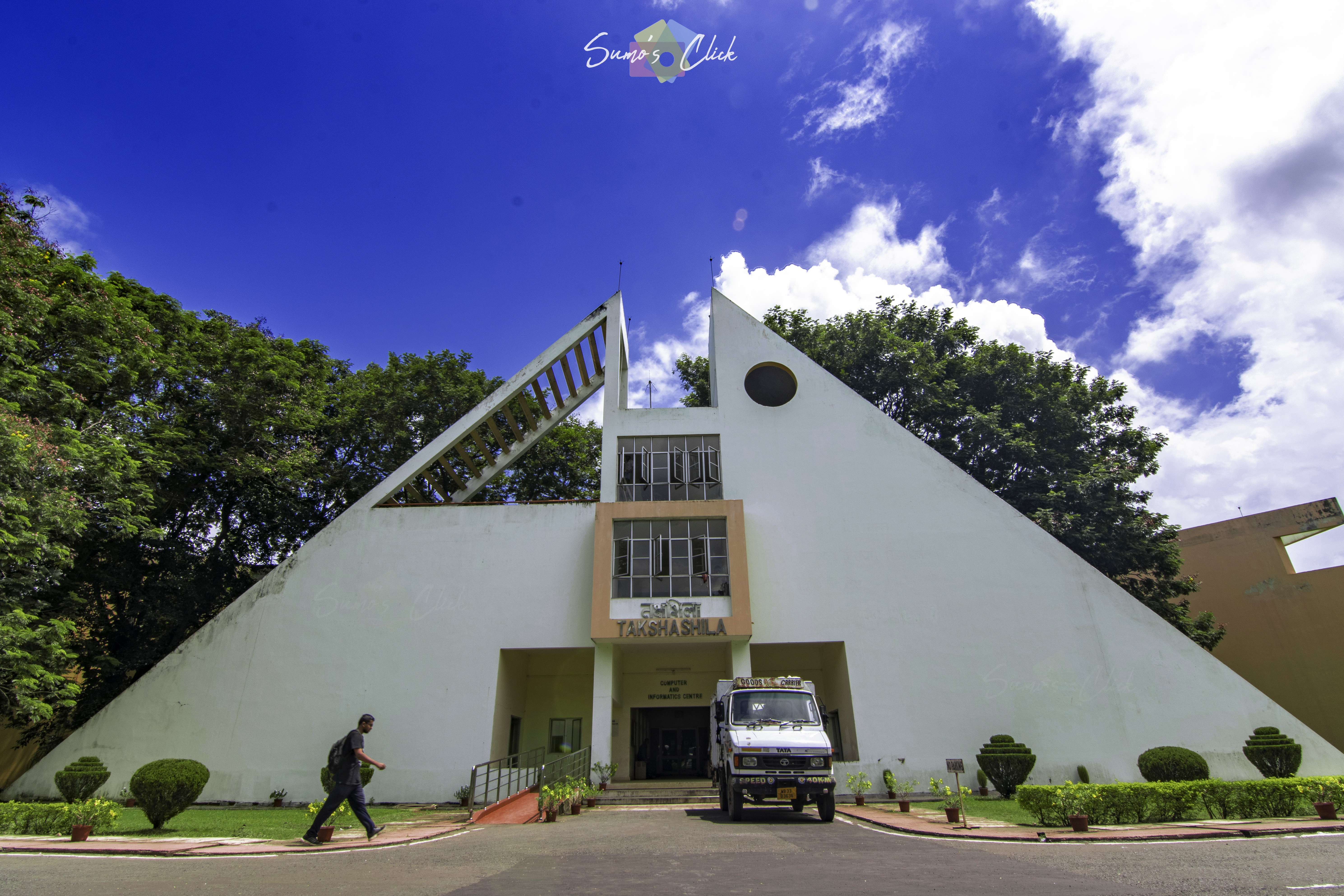 Takshashila